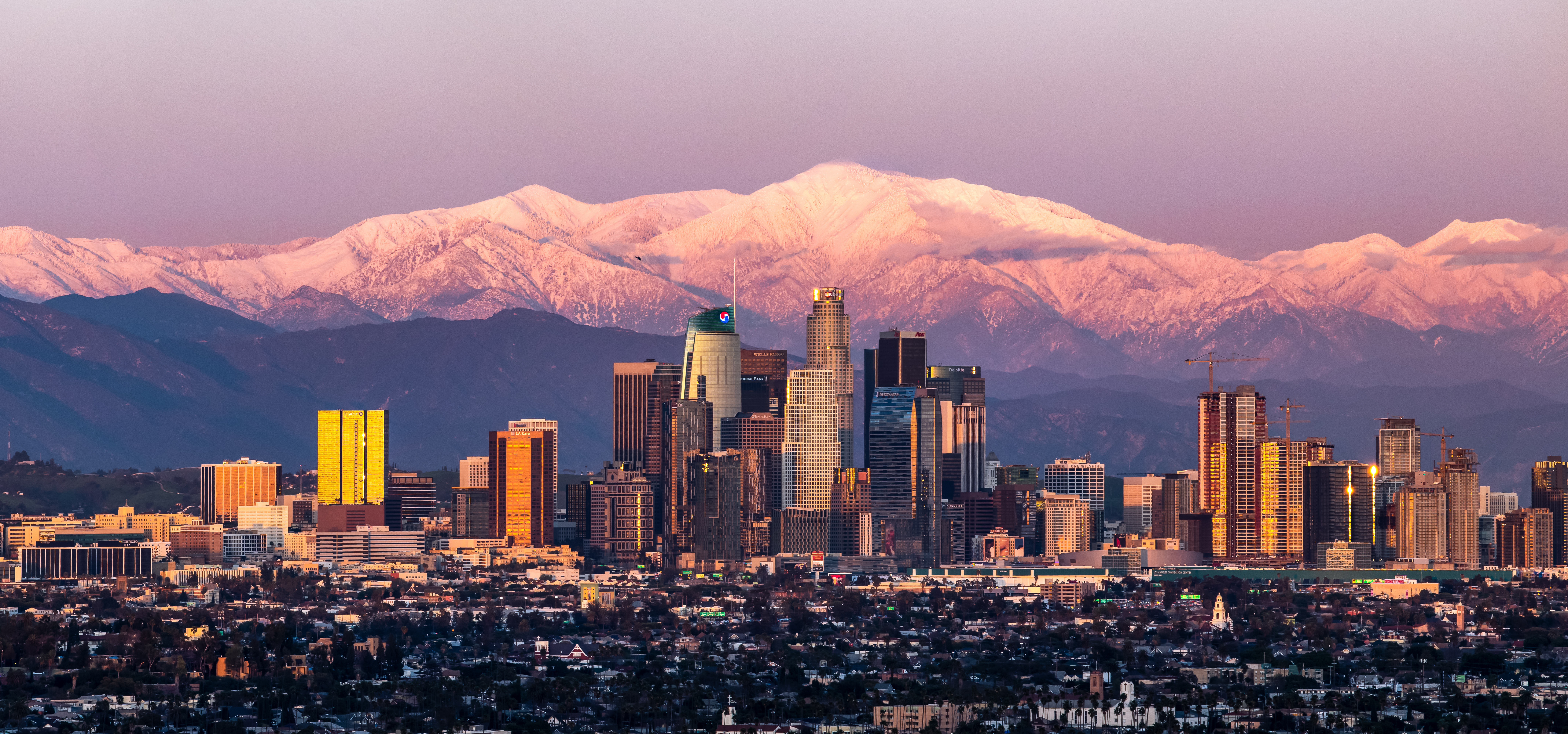 February shot of downtown Los Angeles with Mount Baldy in the background after a large snow storm. Photo was taken from Kenneth Hahn State Recreation Area.